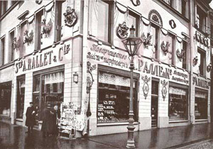 The Rallet shop in Moscow pre 1917